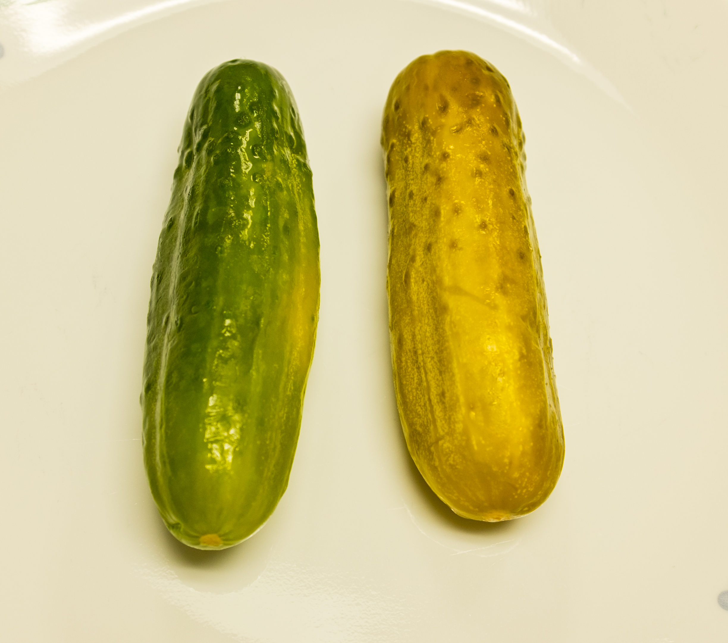 Half Sour (L) vs Whole Deli (Kosher) Pickle. Ba-Tampte pickles, from Brooklyn NY.